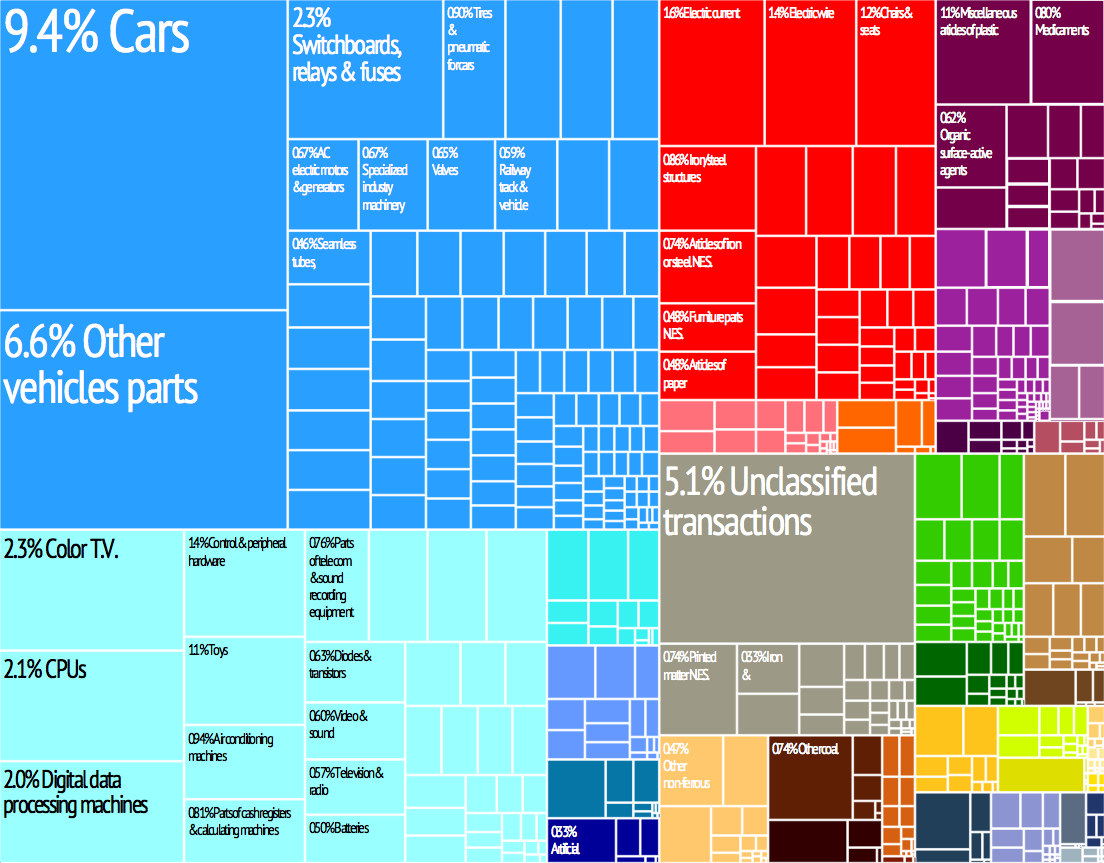 Export Trading Treemap. From MIT/Harvard Atlas of Economic Complexity